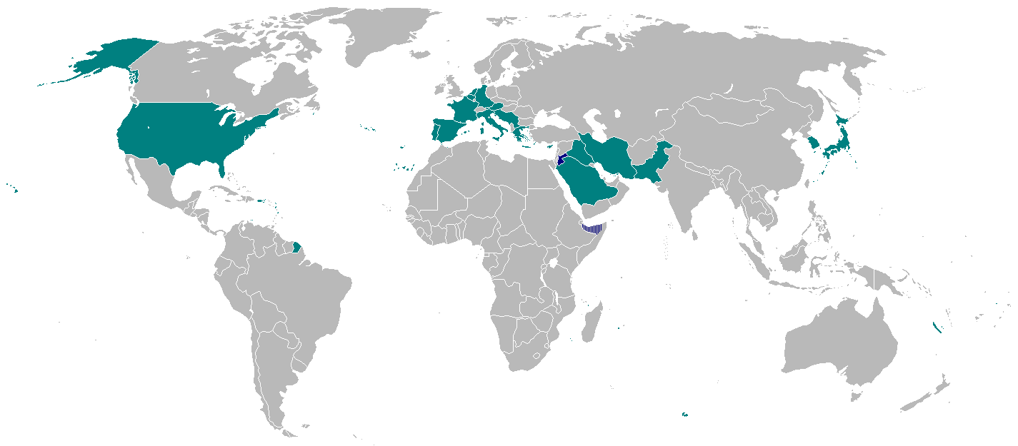 Users of the M47 Patton, as read in the article. File last updated in 2009, and may be out of date. former users of the M47 in dark cyan current users in dark blue